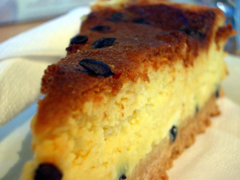 Tangy passionfruit cheesecake at Milawa, in North East Victoria, Australia.